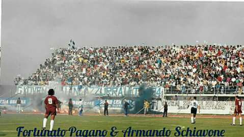 Gioventù Biancoazzurra 94